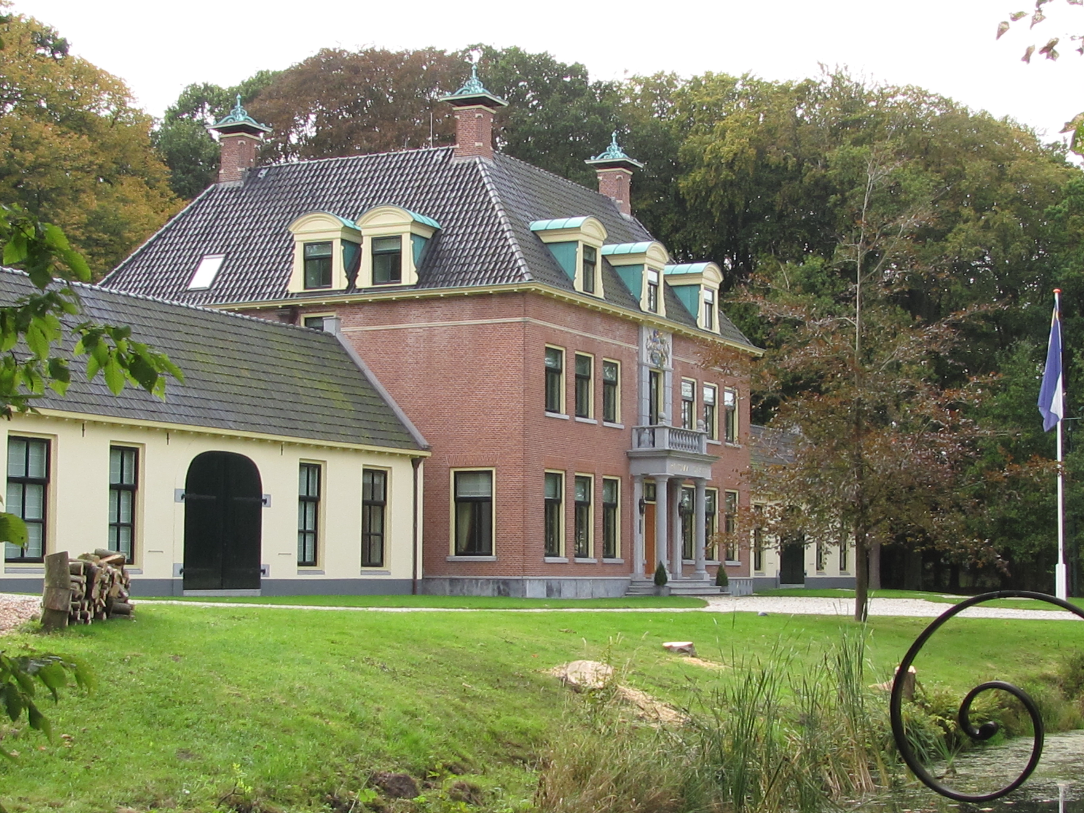 Rinsmastate near Driezum